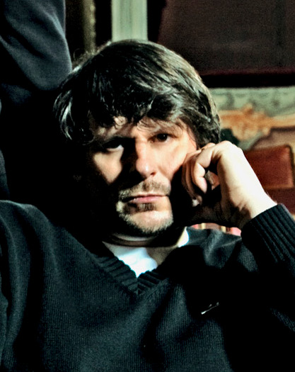 Fader Gladiator (Daniel Sluga), producer of Die Firma